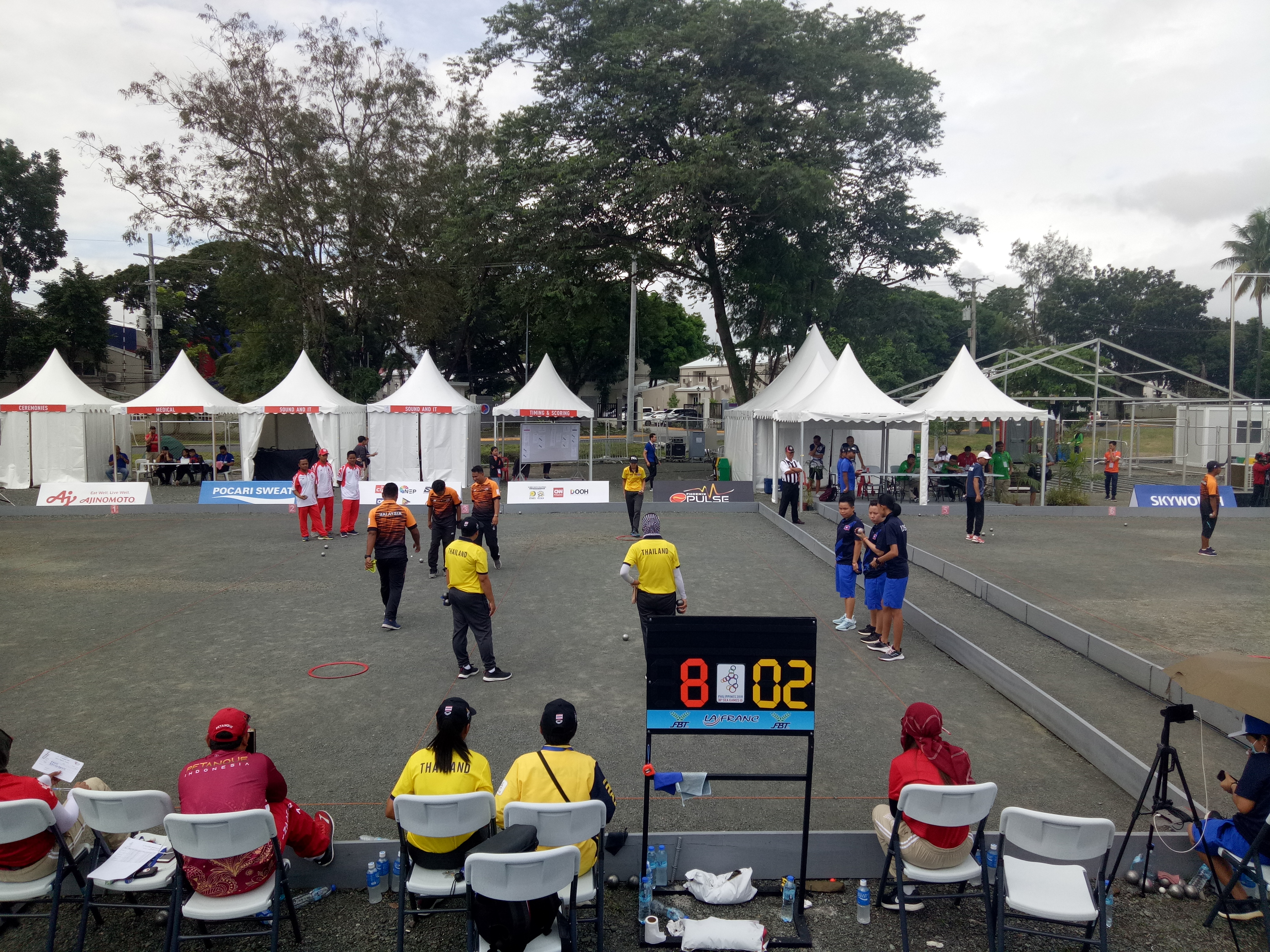 Petanque Women's triples match: Thailand (yellow) vs Laos (navy blue) at the 2019 Southeast Asian Games at Clark Freeport, Mabalacat, Pampanga.